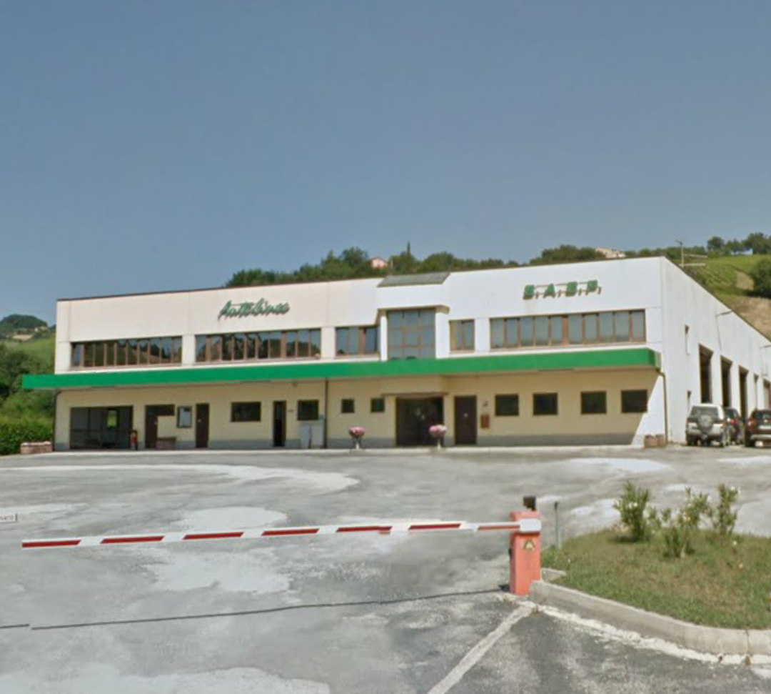 Structure of SASP